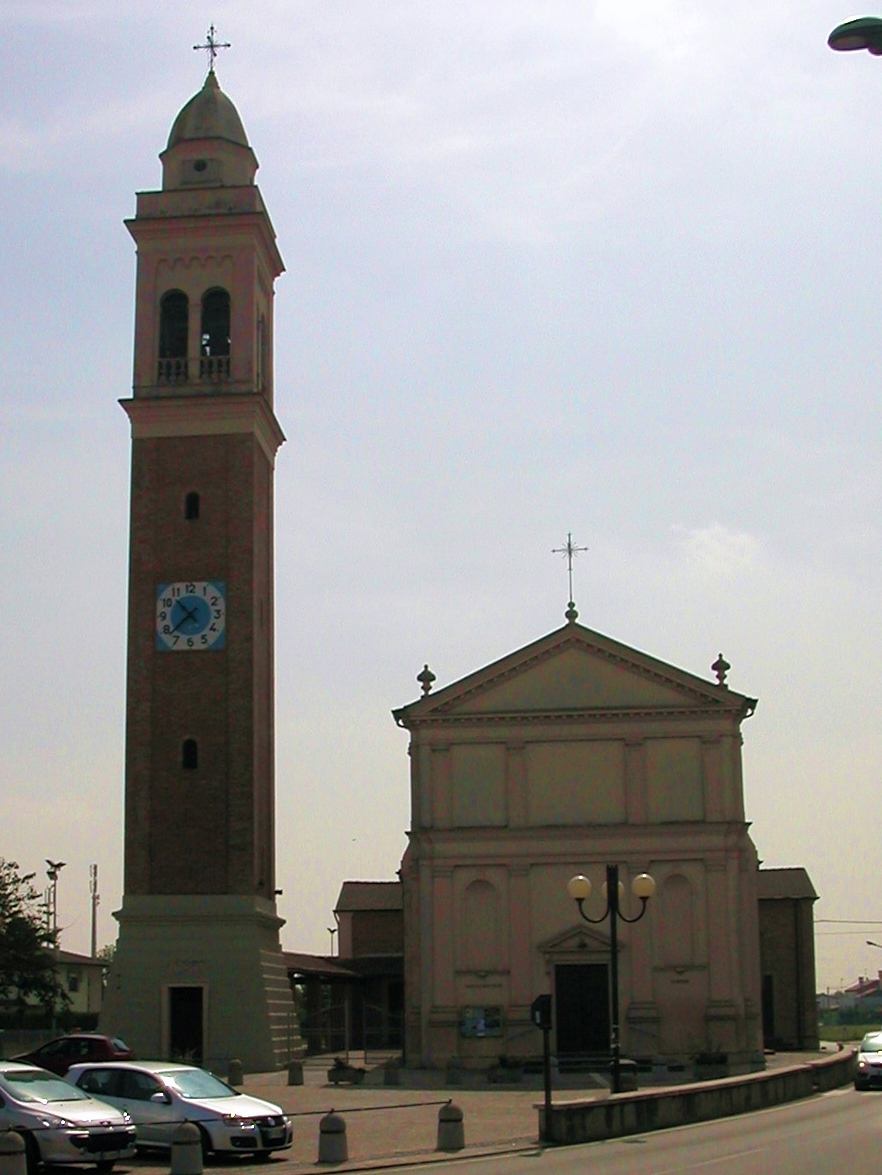 San Fidenzio Church in Polverara (Padua)